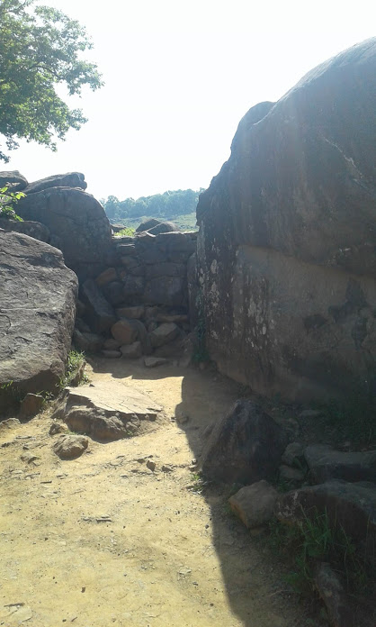 The area of Devil's Den where the "Sharpshooter" photo was staged on 25 May 2018